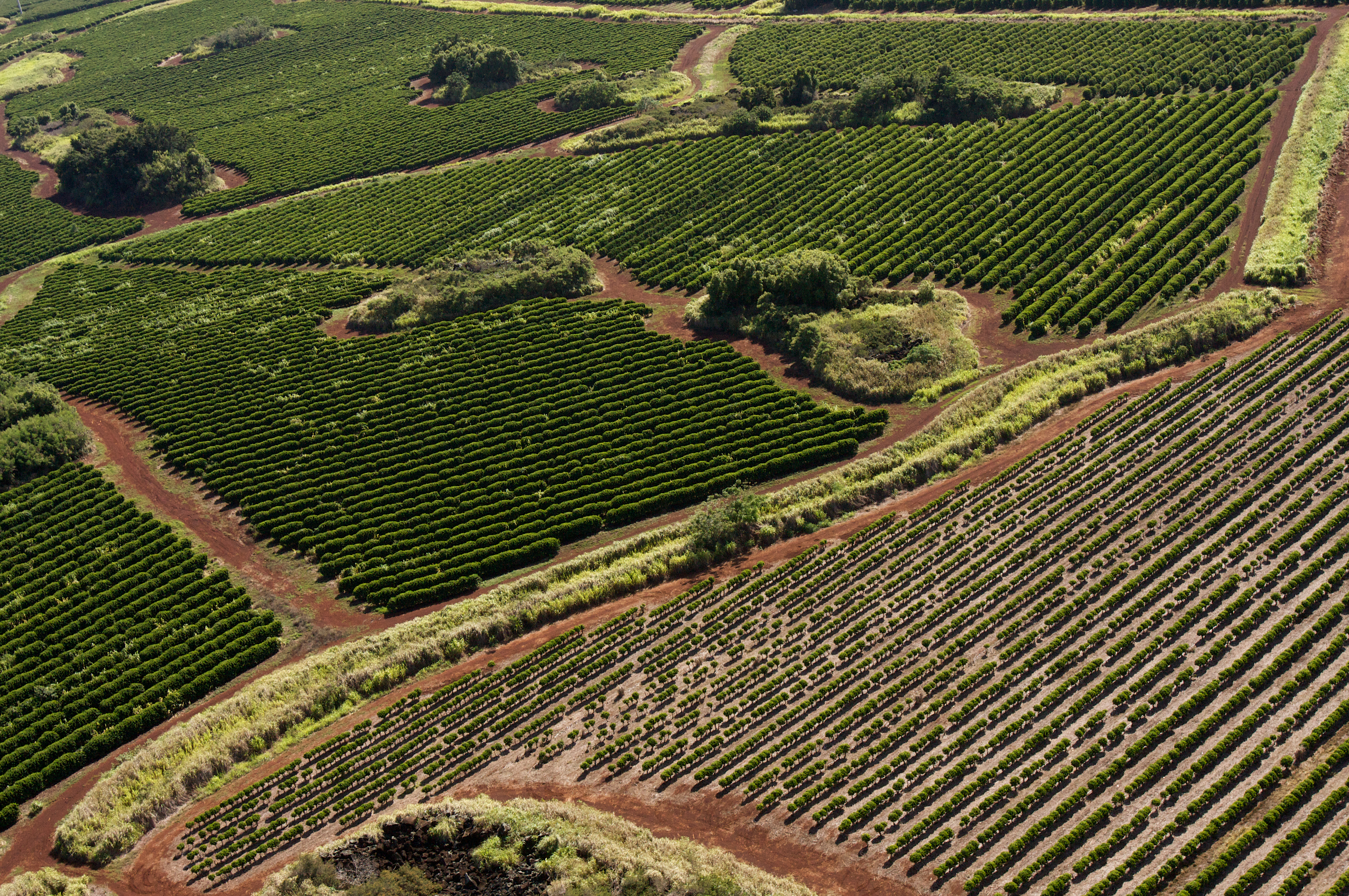 Coffee plantation, Kauaʻi, Hawaii, USA